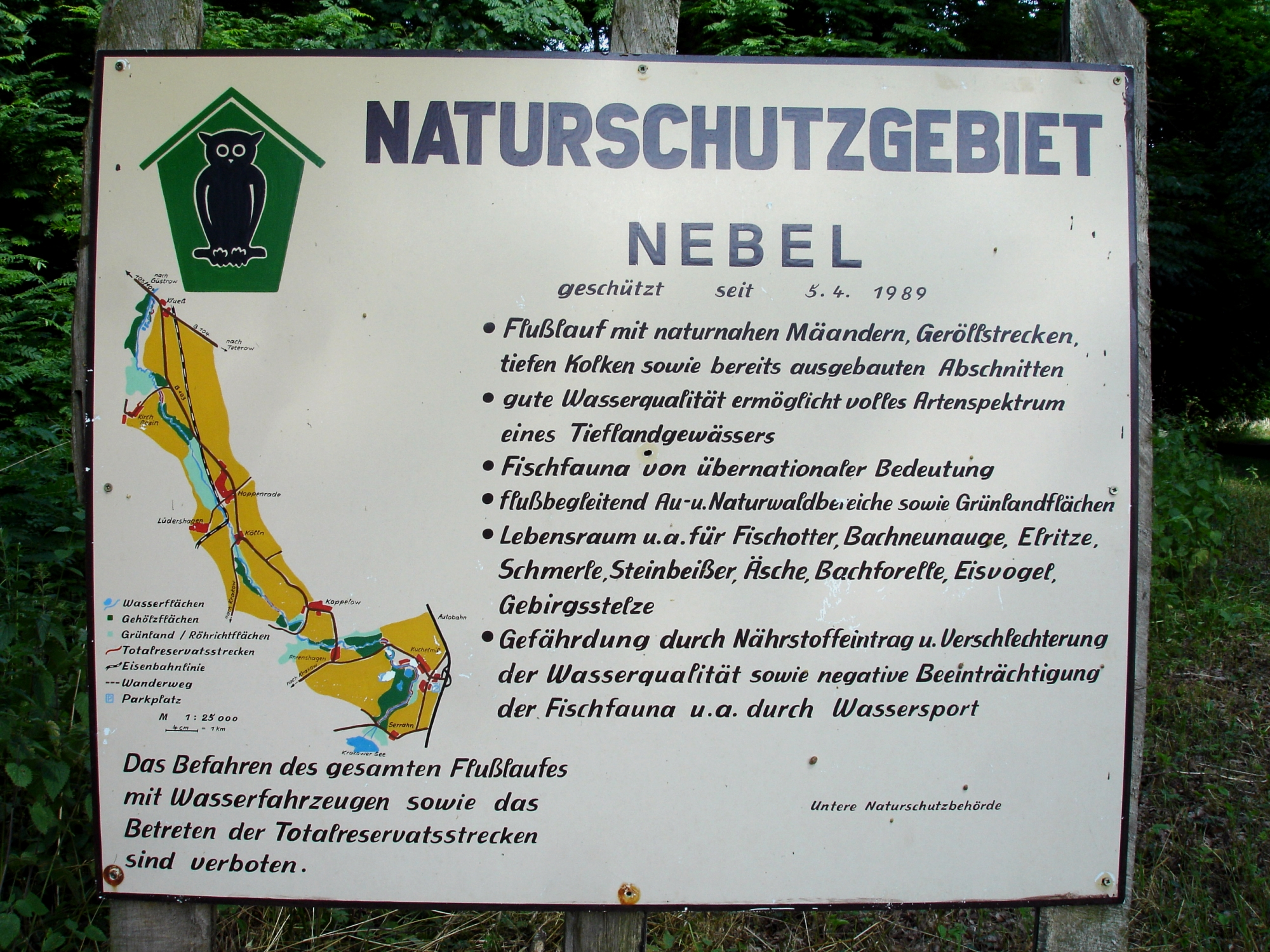 Nebel nature reserve, Mecklenburg-Vorpommern, Germany